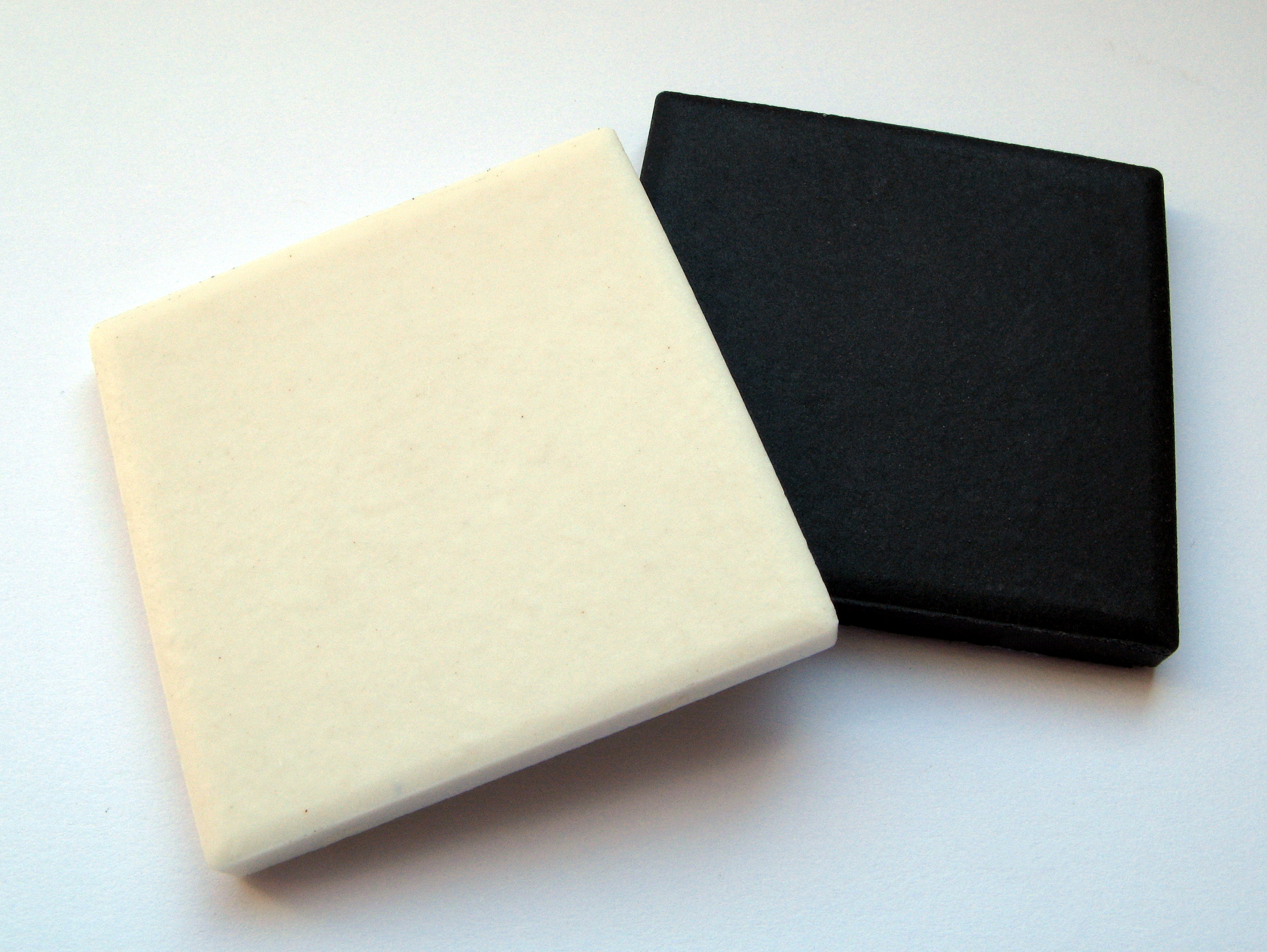 Streak plates white and black for checking the streak color of minerals